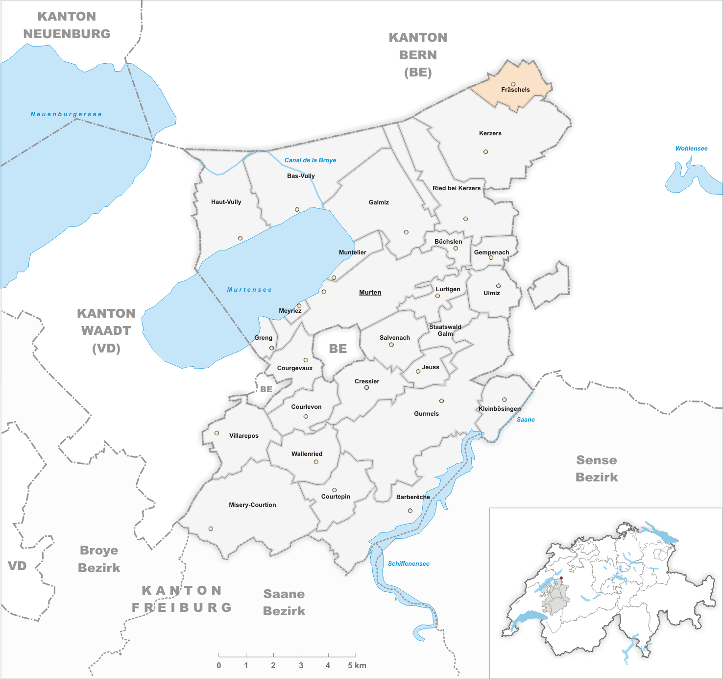 Municipality Fräschels